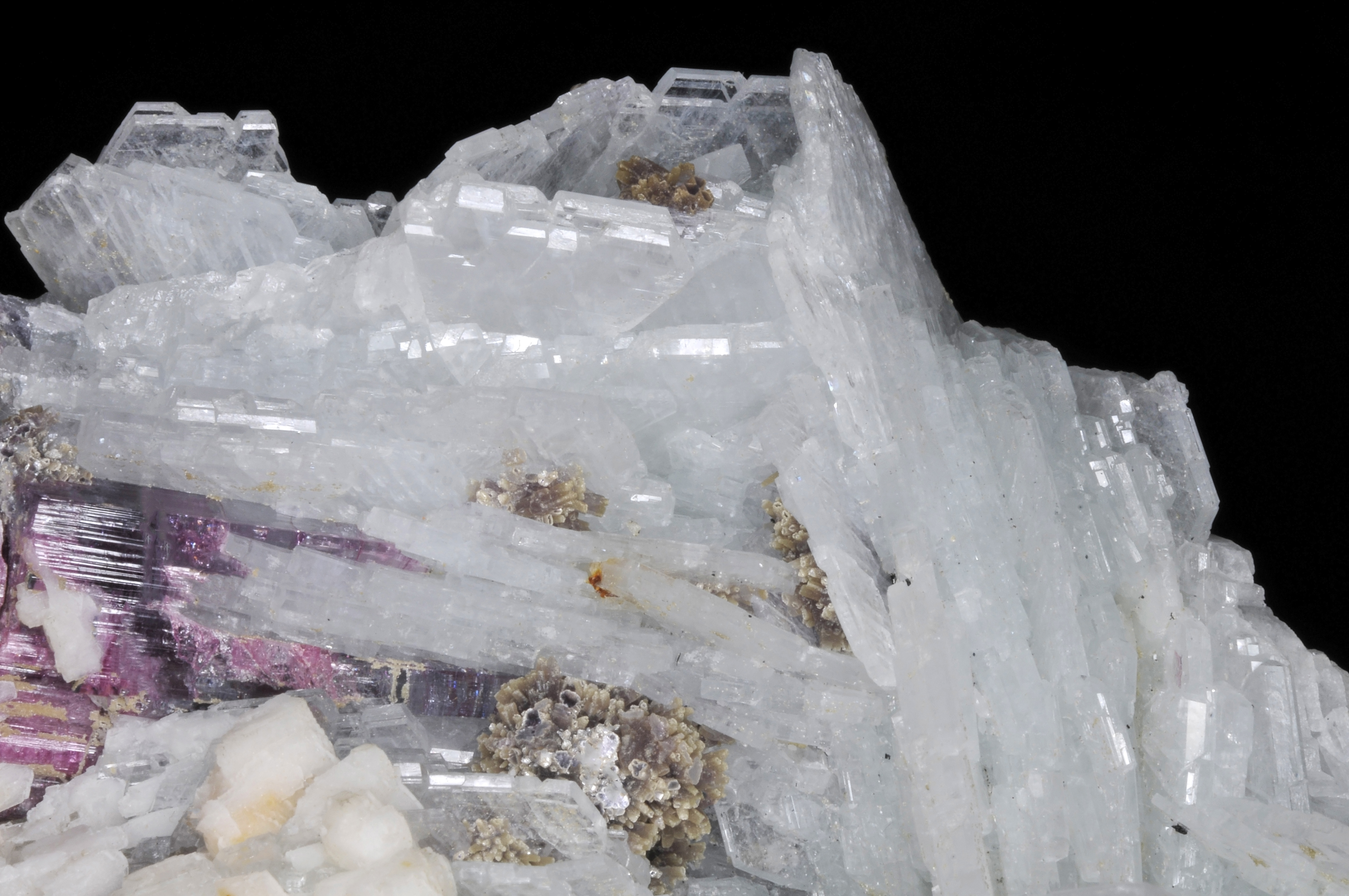 crystals of albite var. cleavelandite, crystals of mica var. lepidolite, crystals of feldspar var. orthoclase, crystals of tourmaline var. elbaite : Itatiala Mine, Conselheiro Pena, Doce valley, Minas Gerais, Brazil